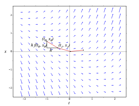 Método de euler para calcular as soluções de um sistema contínuo de primeira ordem.